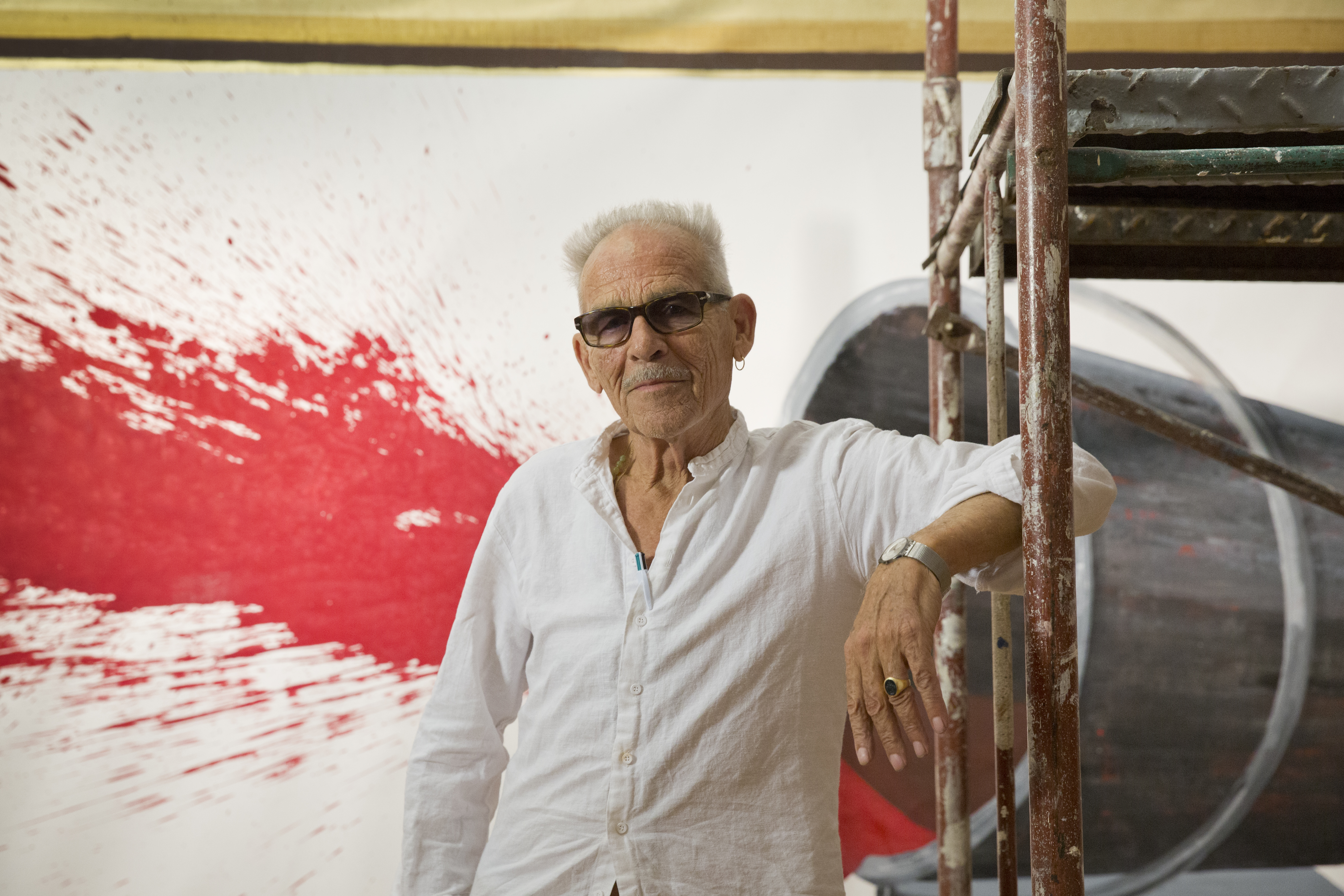 Buenos Aires, 9 de enero de 2016.- El artista Roberto Plate se presentará en el Museo Nacional de Bellas Artes con la exposición antológica, en la que se presenta su obra pictórica, su labor como escenógrafo y se recrean varias de sus instalaciones históricas.Fotos: Margarita Solé / Ministerio de Cultura de la Nación.